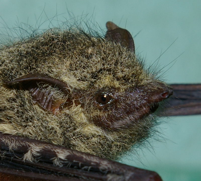 Rhynchonycteris naso